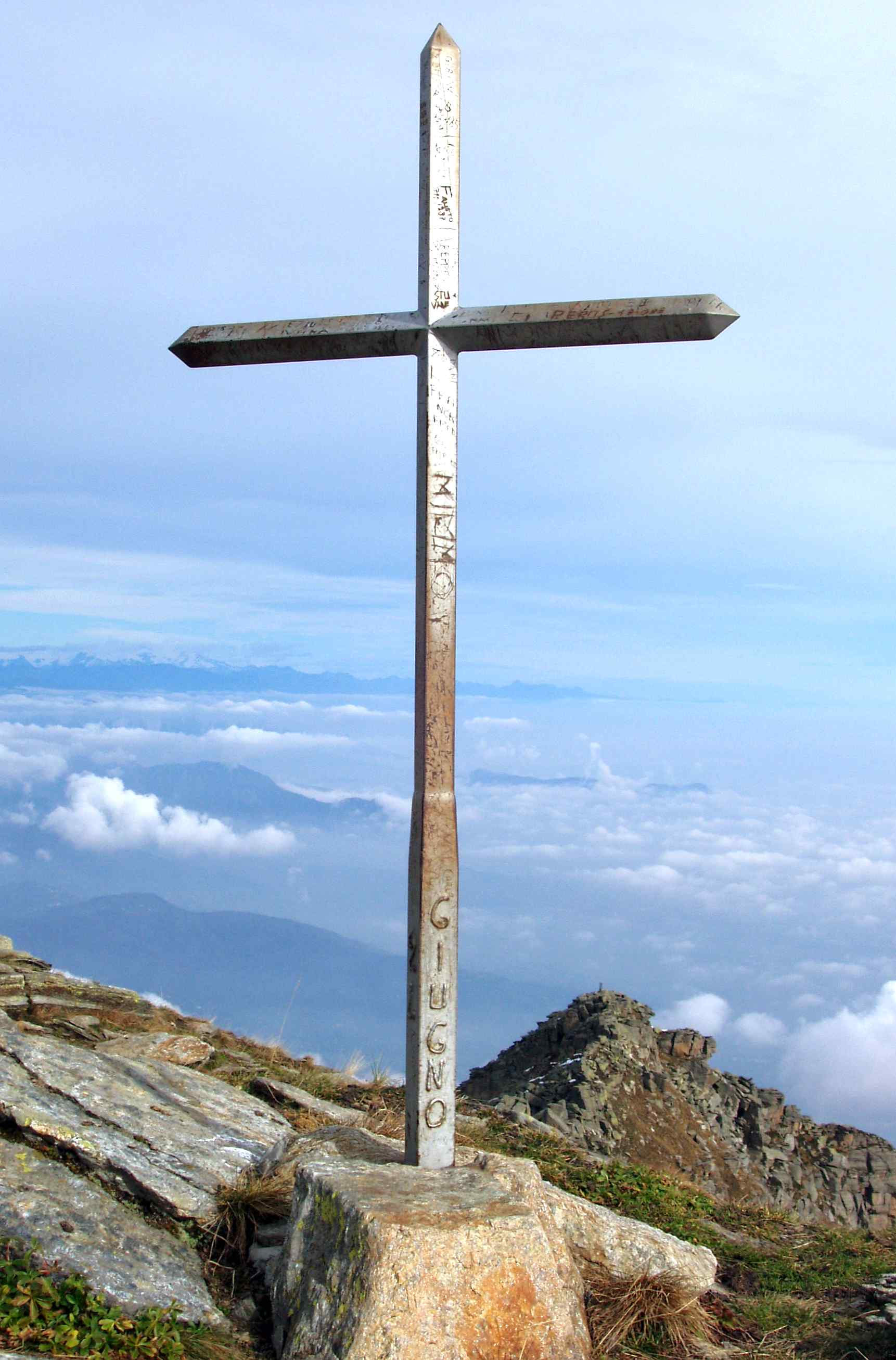 Mount Ostanetta (CN, Italy): cross on the top